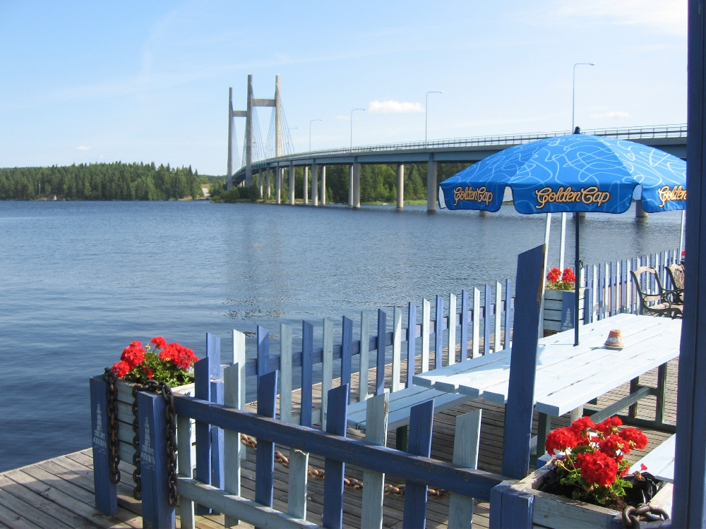 Kärkinen Brigde, Korpilahti, Finland